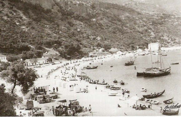 Arrabida